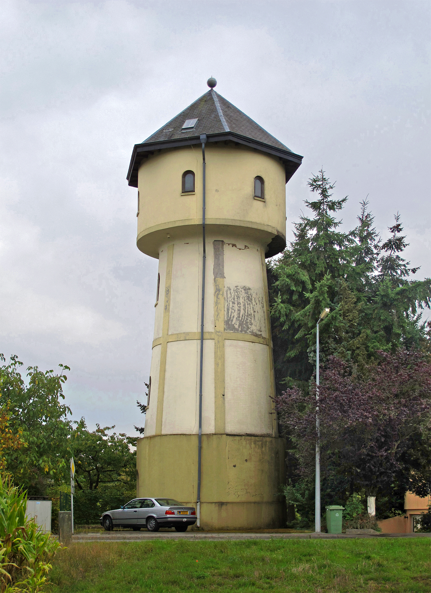 Old water tower of Senningerberg, Luxembourg